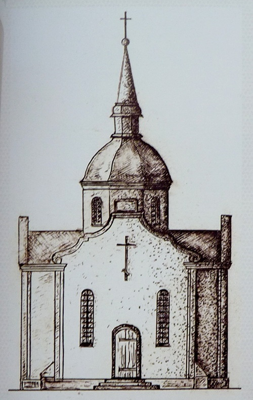 ул.Знаменская, 6 (Дом Харченко; Католический храм Святой Бригитты 1898г.) в г.Кривой Рог